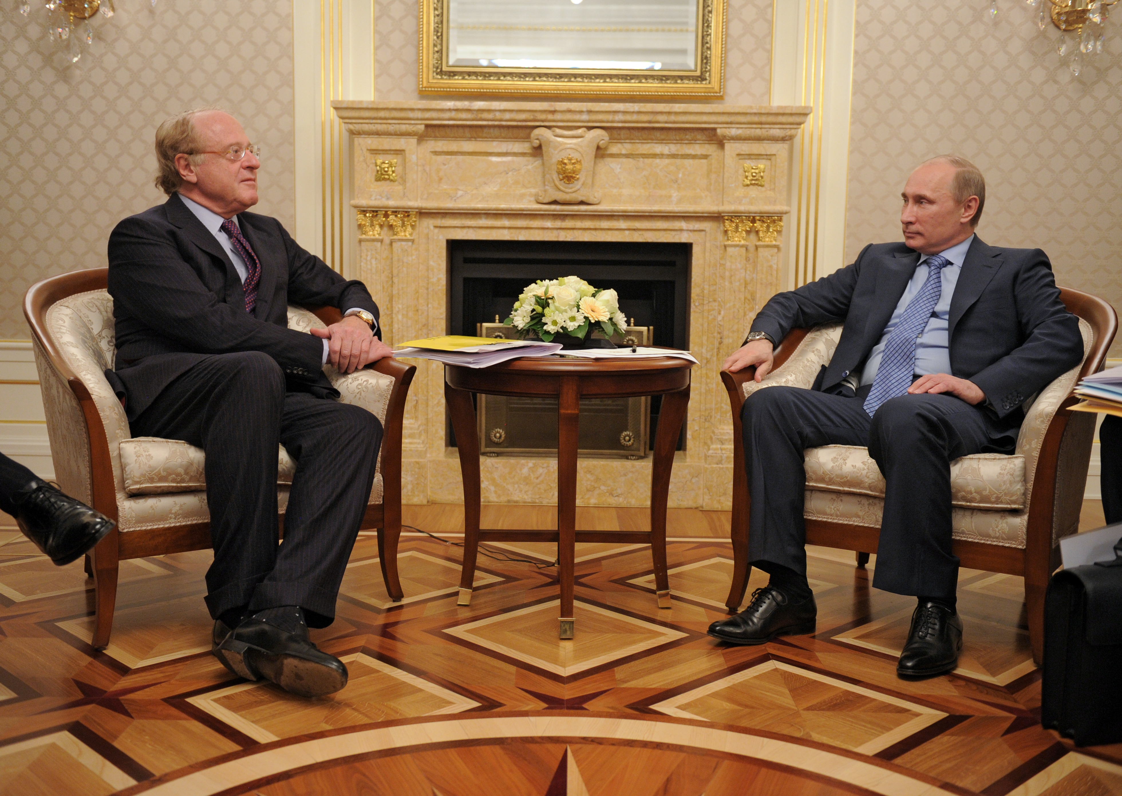 Eni CEO Paolo Scaroni meeting with Prime Minister Vladimir Putin at the House of the Government of the Russian Federation, Moscow.